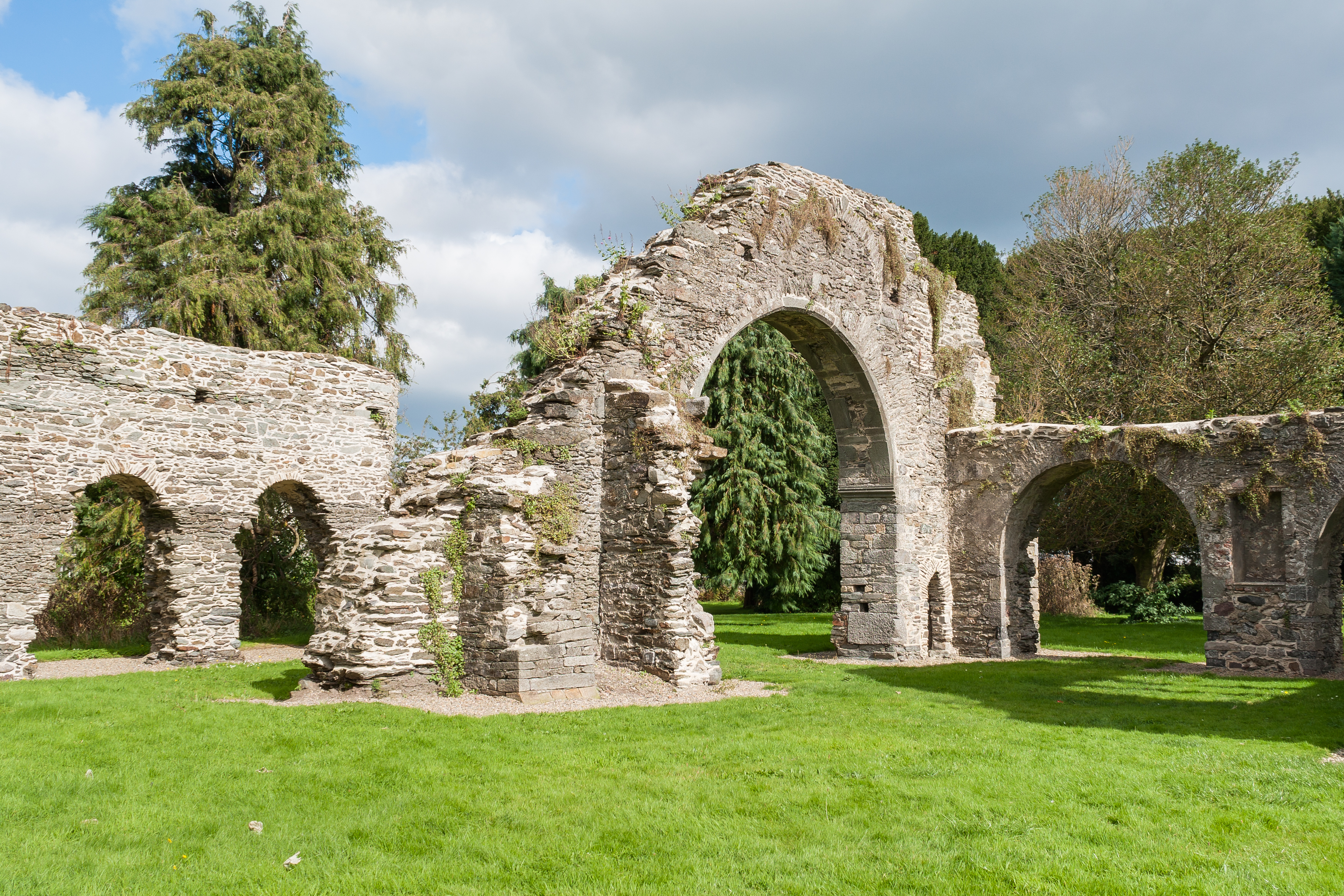 Arch of the south transept and north wall of the nave, looking north-east.